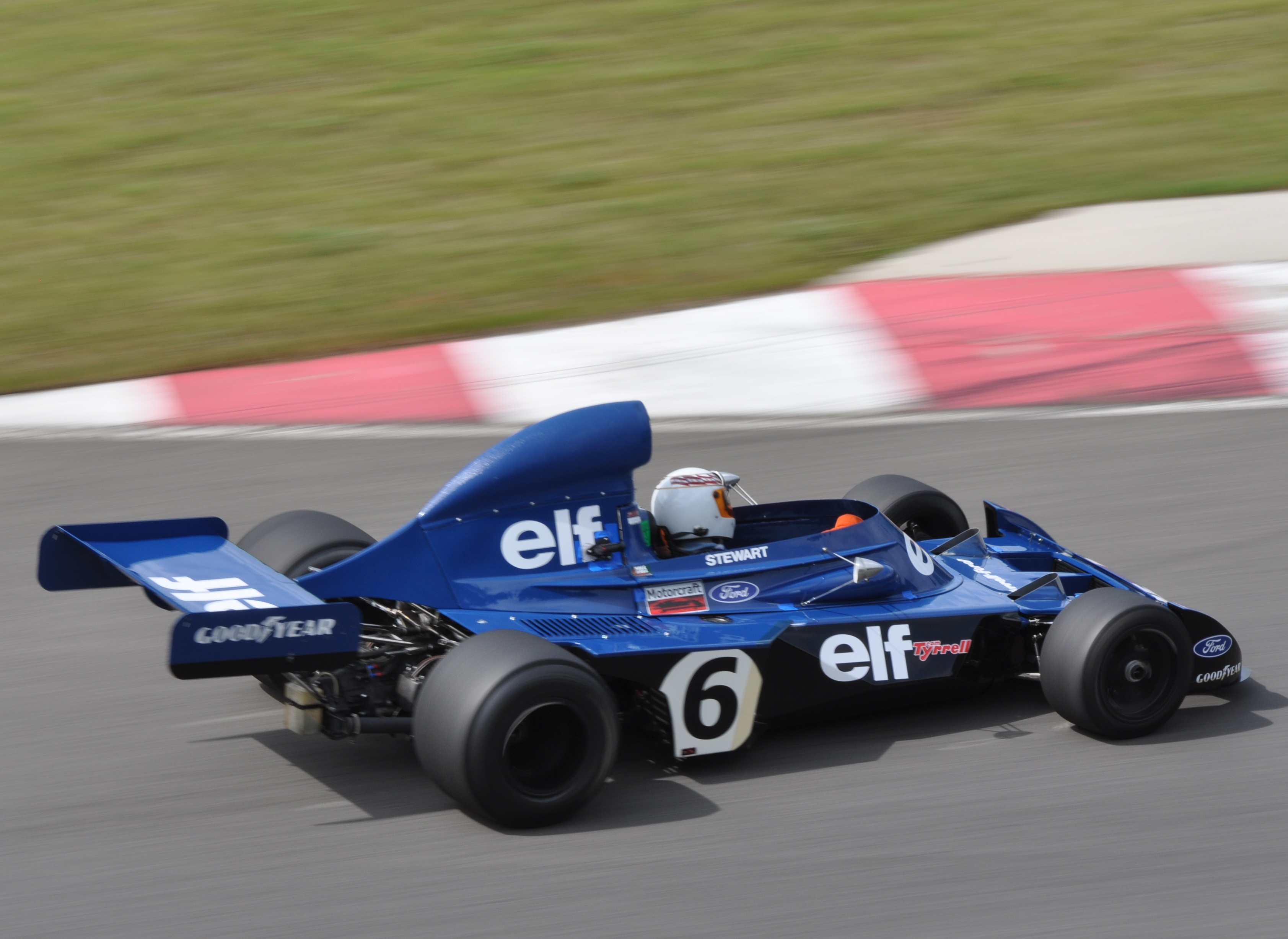 John DeLane aims his Tyrrell 006 for the apex of the second half of The Esses at Circuit Mont-Tremblant, during the 2010 Legends of Motorsport meeting.